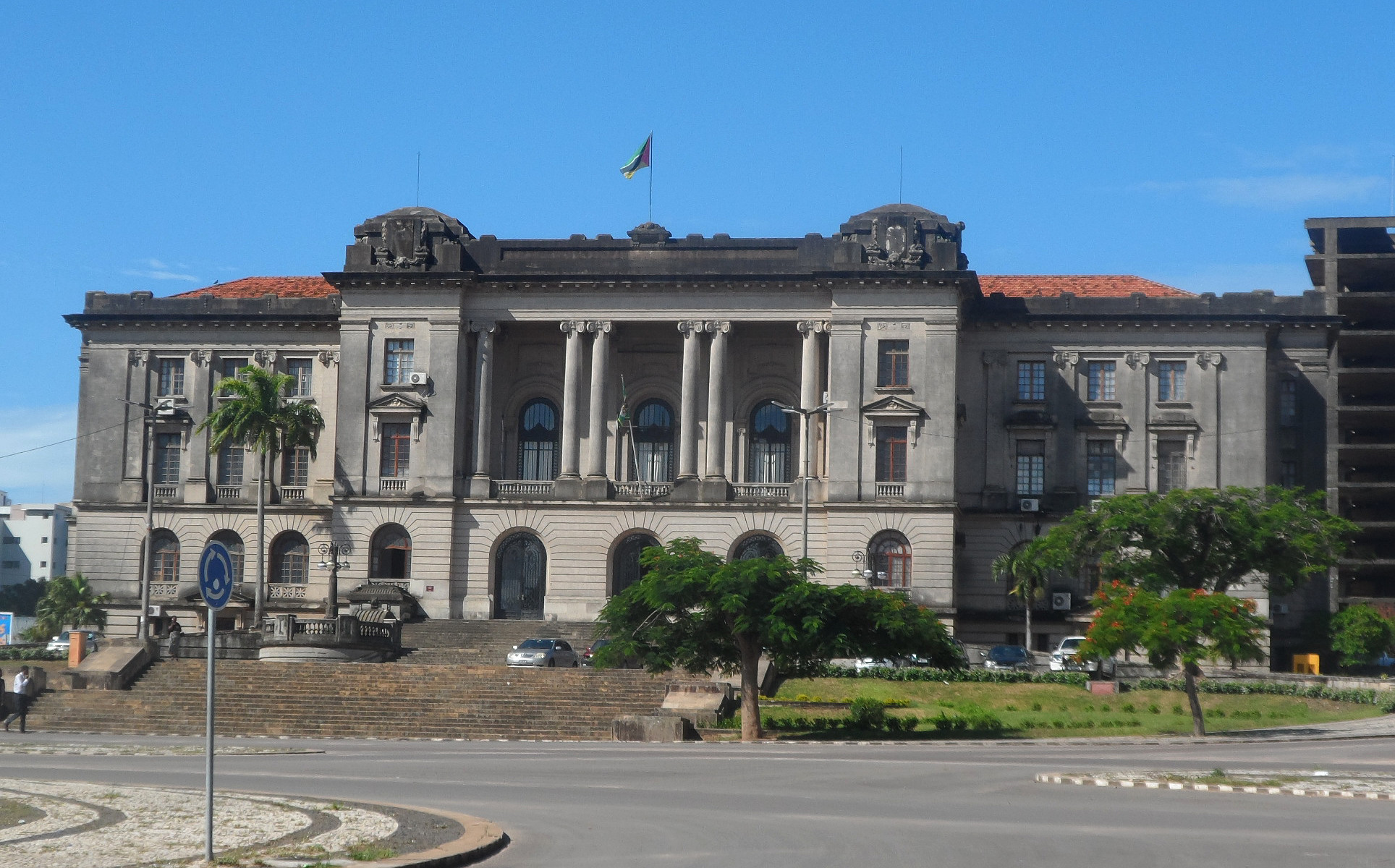 Building of the Municipal Council of Maputo (Maputo City Hall) front view